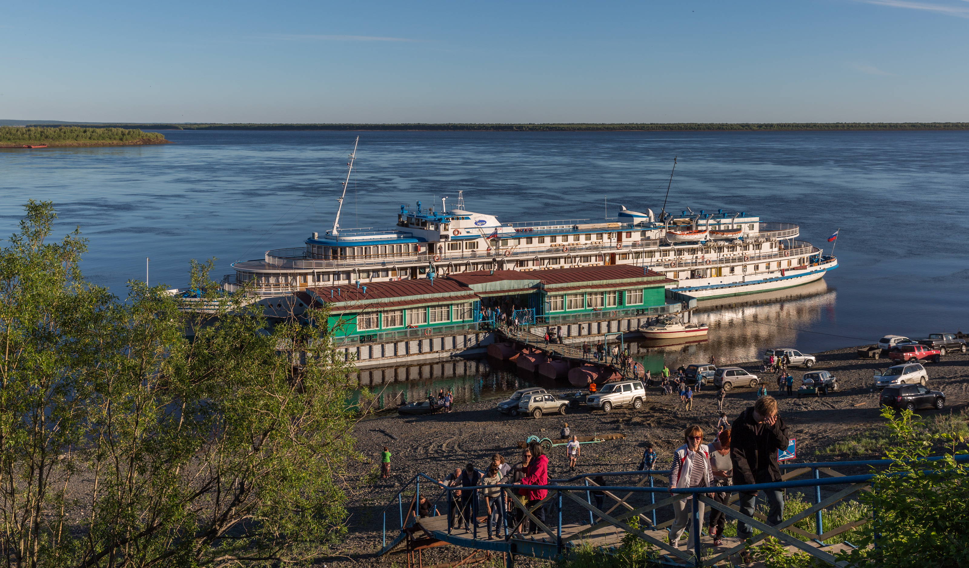 The port of Turuhansk